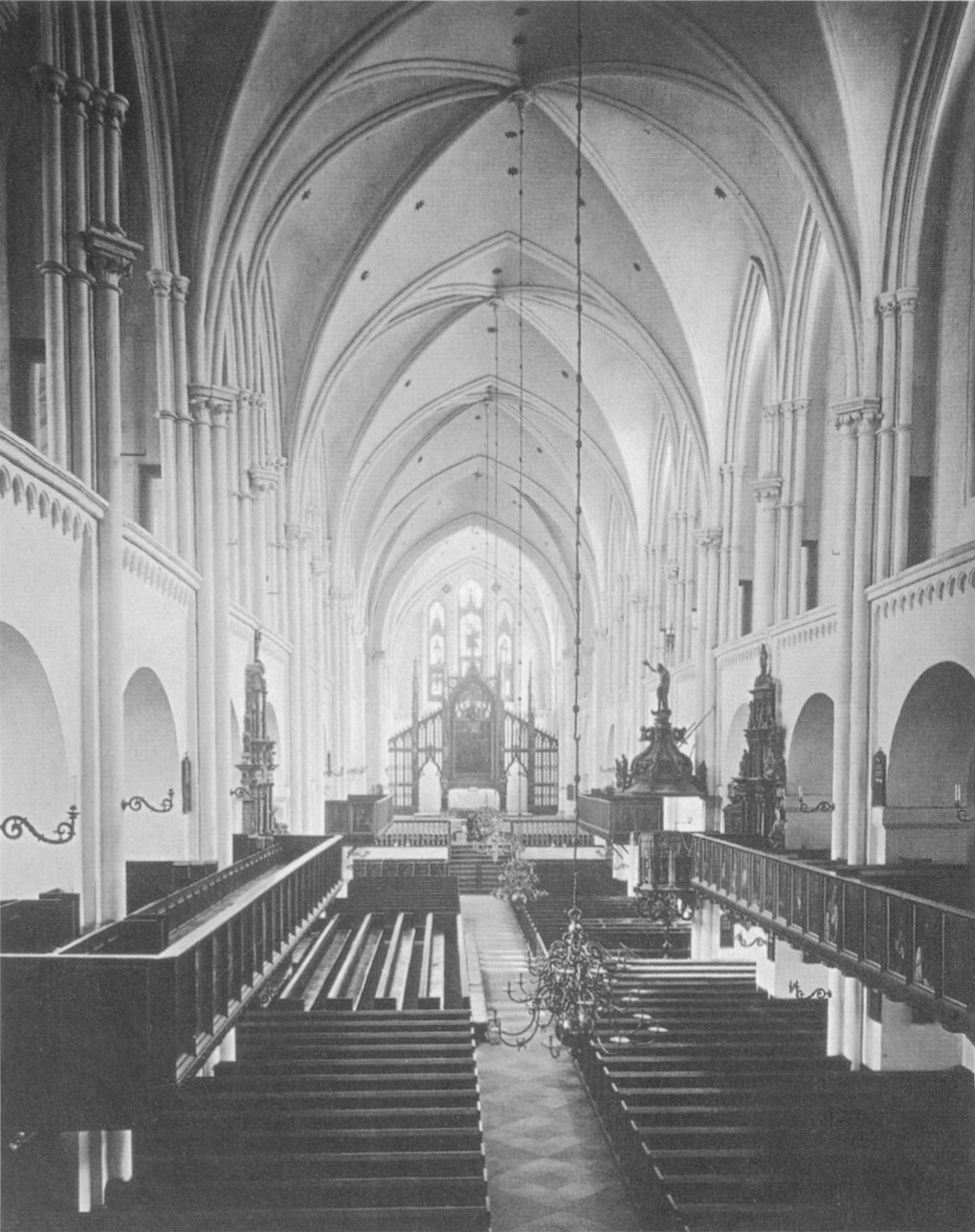 Central nave of Bremen Cathedral, photograph of 1876